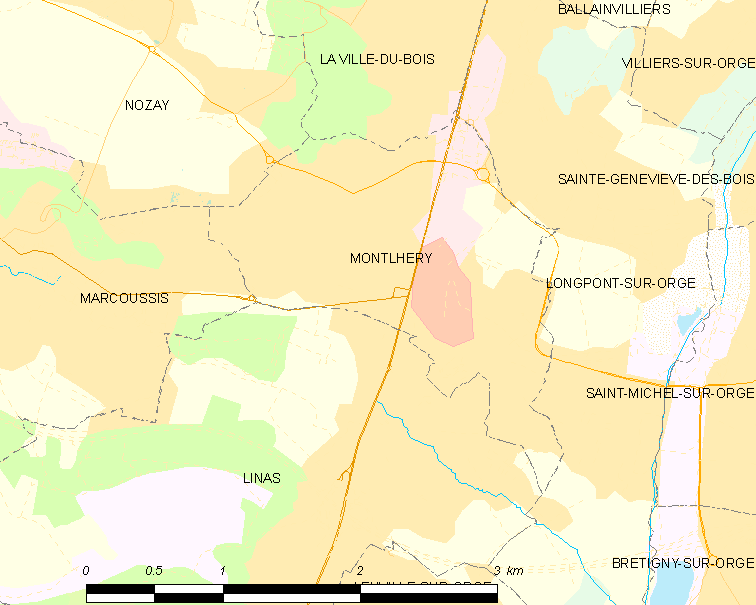 Map of French municipality Montlhéry